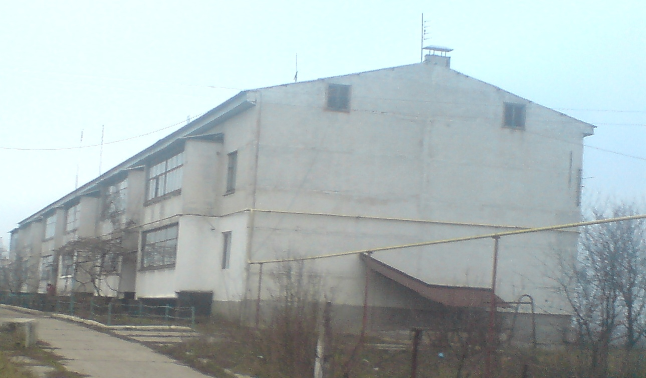 Zaliznychna 23a, Zatyshshia